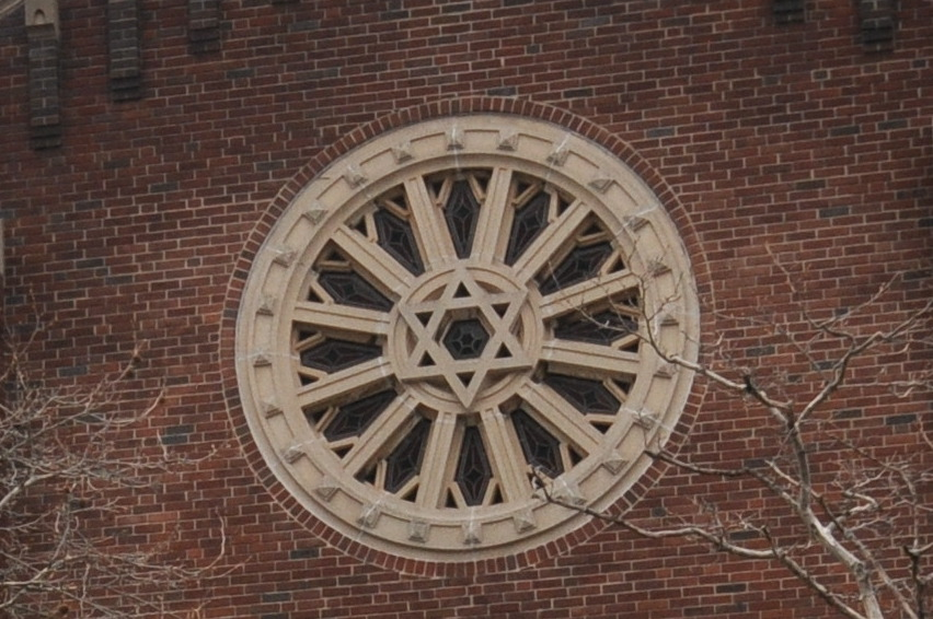 Star of David rose window in the former Agudath Sholem Synagogue, Stamford, Connecticut.